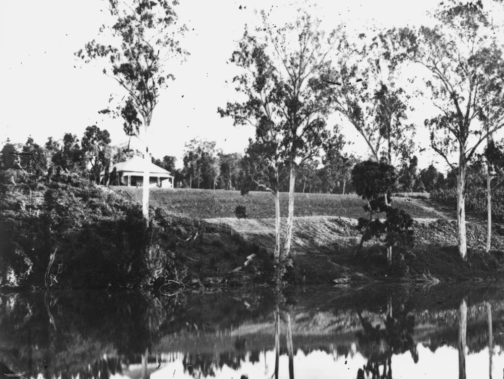 Cleared scrubland, Mary River, Queensland The Richard Daintree collection held in the John Oxley Library has many unidentified images. If you are able to assist with identification, please click on the Feedback tab. Richard Daintree, geologist and photographer, was born in 1832 in Huntingdonshire, England. He matriculated at Christ's College, Cambridge in 1851 and in 1852 joined the gold rush to Victoria. Unsuccessful as a prospector he became assistant geologist in the Victorian Geological Survey until 1856. On a visit to England he became interested in photography and when he rejoined the Geological Survey in 1859 he pioneered the use of photography in field-work. In 1864 he became a resident partner with William Hann in pastoral properties in the Burdekin country of North Queensland. There he was able to indulge his passions for both photography and prospecting. When the pastoral boom collapsed he used his knowledge to open up goldfields at Cape River (1867), Gilbert (1869) and Etheridge in 1869-70. Daintree advocated a geological survey of Queensland and when it began in 1868 he was geologist in charge of the northern division until 1870. In that year he made some of his finest photographic studies. In 1871 his collection of photographs and geological specimens formed the mainstray of Queensland's contribution to the Exhibition of Art and Industry in London. He was sent to England as commissioner in charge of this display, although much of it was lost when the ship carrying Daintree and his family was wrecked. In London he was appointed Queensland's agent-general in 1872. Due to ill health Daintree resigned in 1876 and died in Kent on the 20th June, 1878. His photographs , taken under difficult conditions by the cumbersome wet-plate process, are superb specimens of the art and present a vivid picture of early settlement in Queensland.